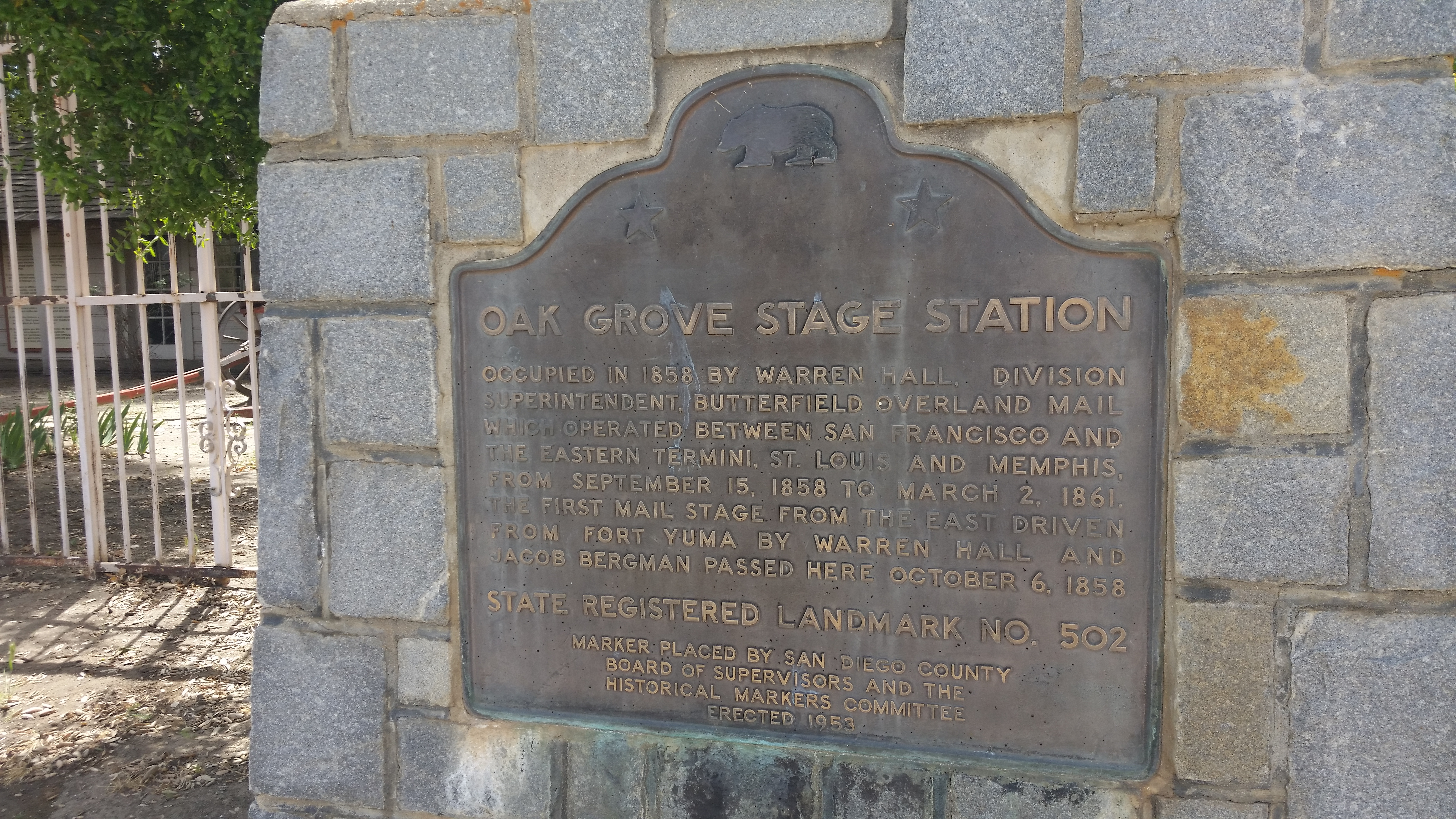 Historical marker outside of Oak Grove Butterfield Stage Station